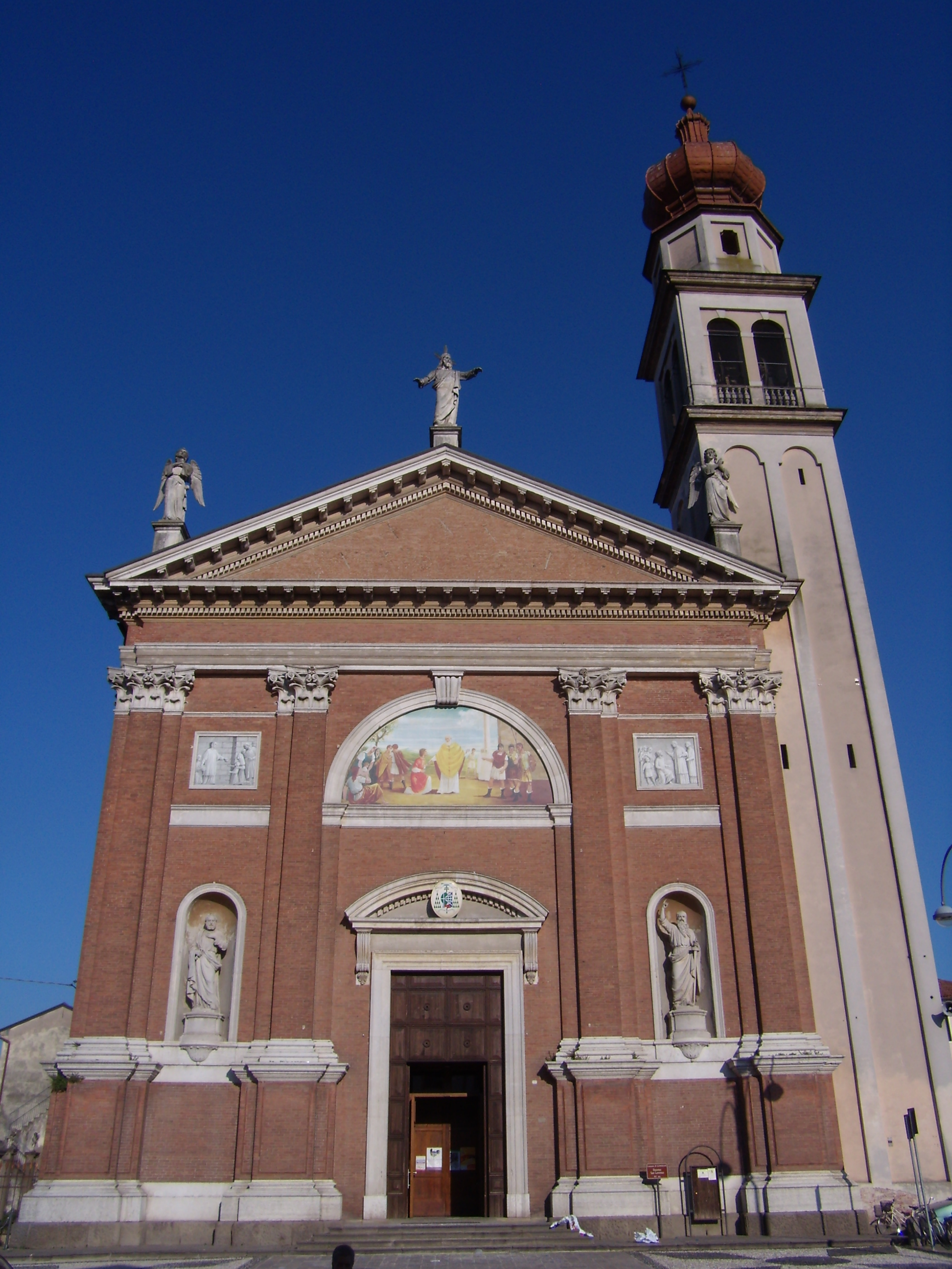 church of San Lorenzo at Conselve (Padua)